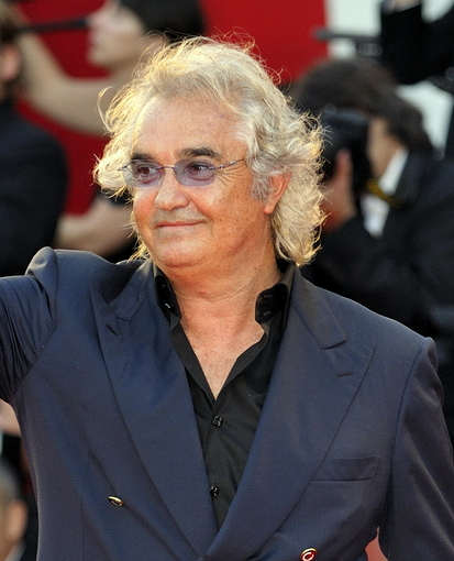 Cropped version of File:Briatore 66ème Festival de Venise (Mostra).jpg